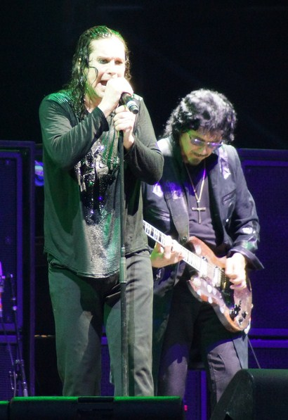 Black Sabbath performing live at Lollapalooza 2012.